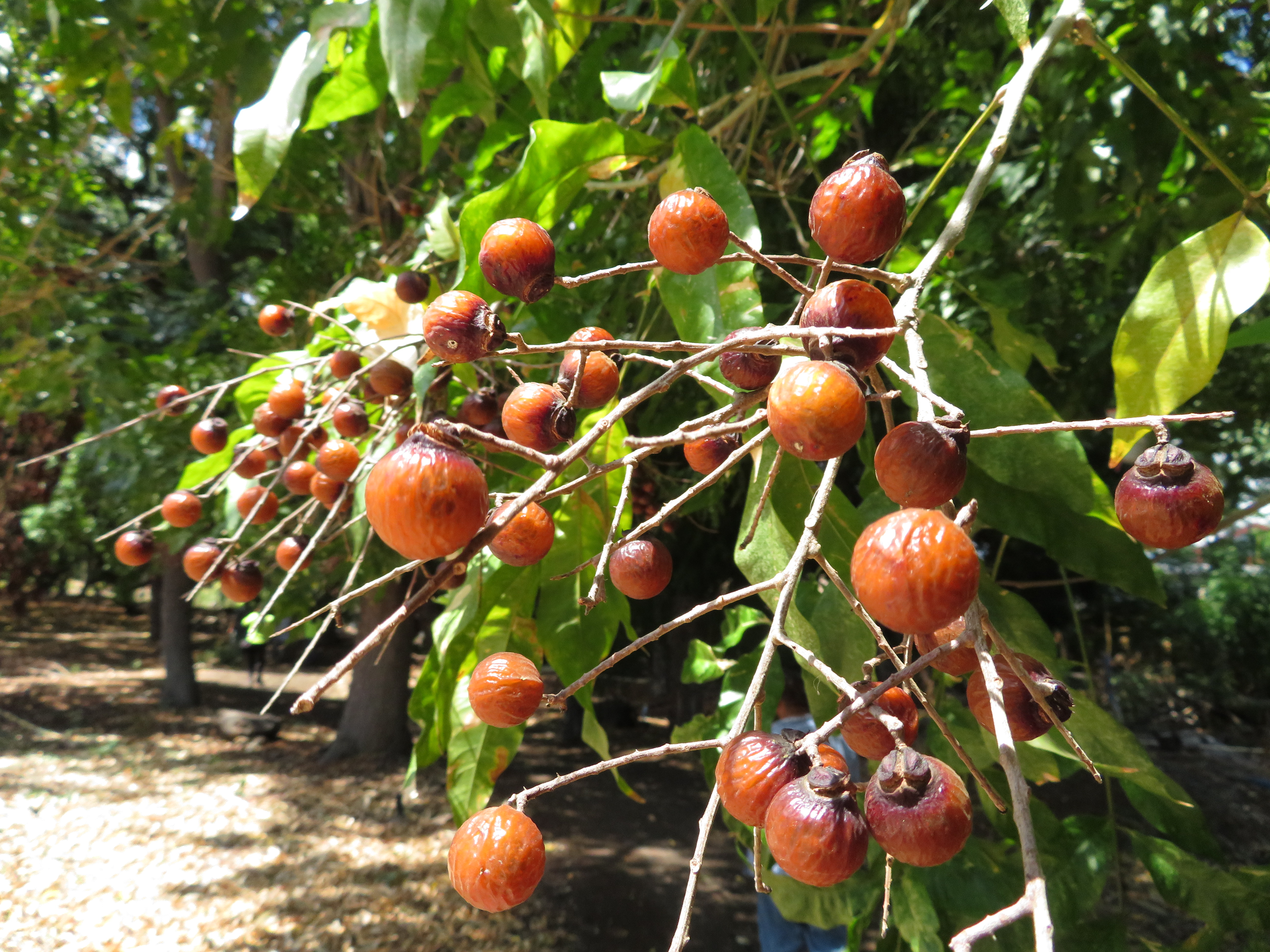 Sapindus saponaria (Ae, manele) Fruit at CTAHR Urban Garden Center Pearl City, Oahu, Hawaii. September 13, 2017 #170913-0143 - Image Use Policy